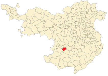 Anglés